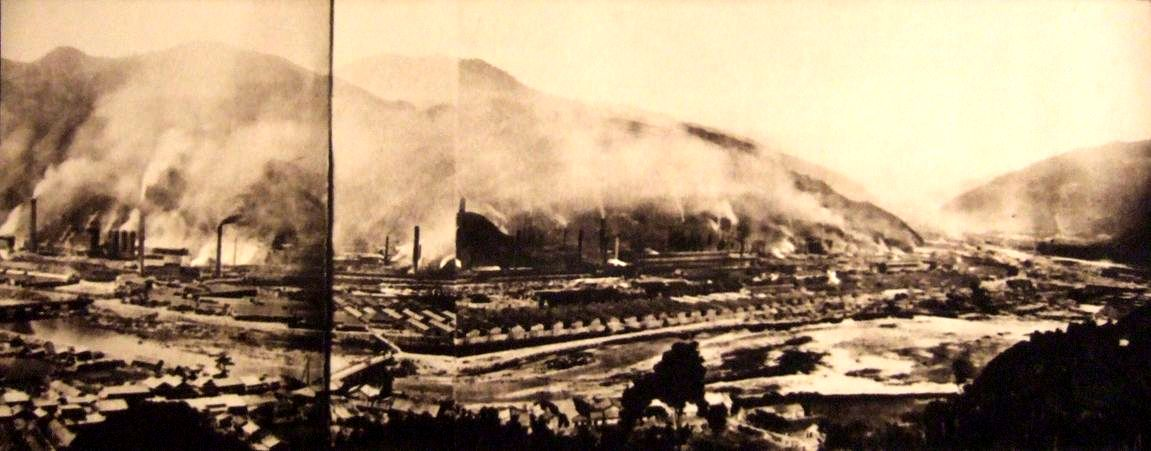 Tanaka_iron_works,_Kamaishi_mine